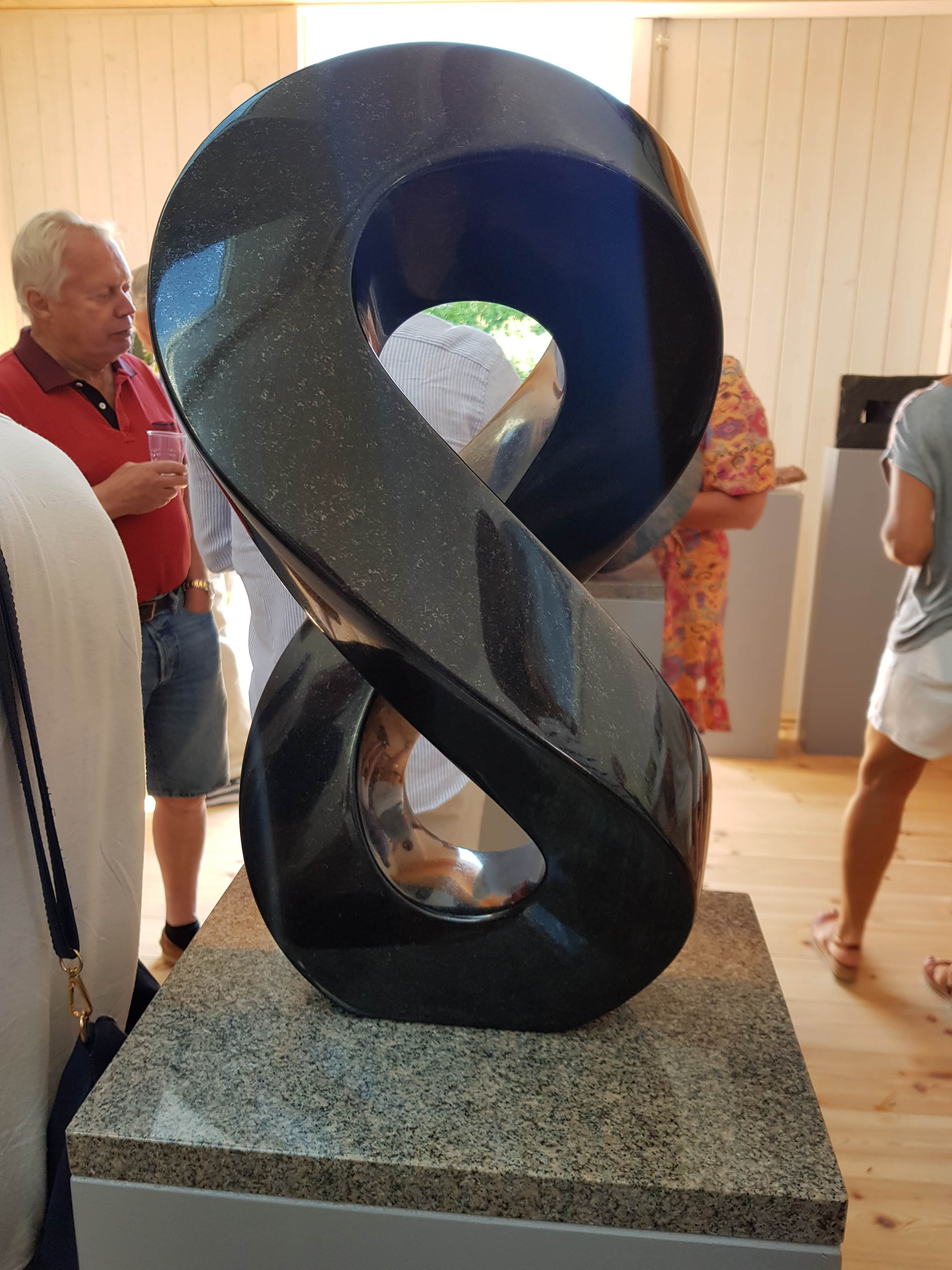 The sculpture Infinite Eight by Pål Svensson